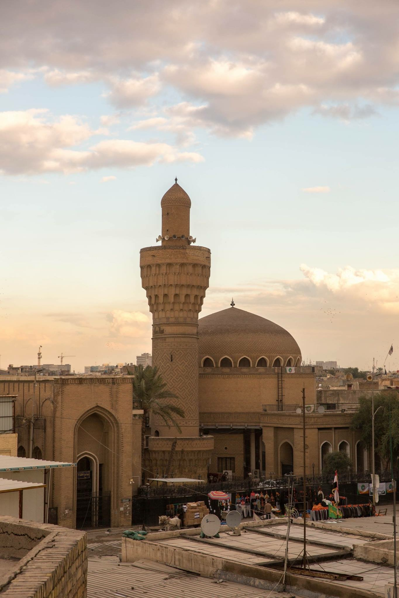 Masjid Al Khulafa' (The Caliph's Mosque) in Baghdad, Built during the Abbasid era